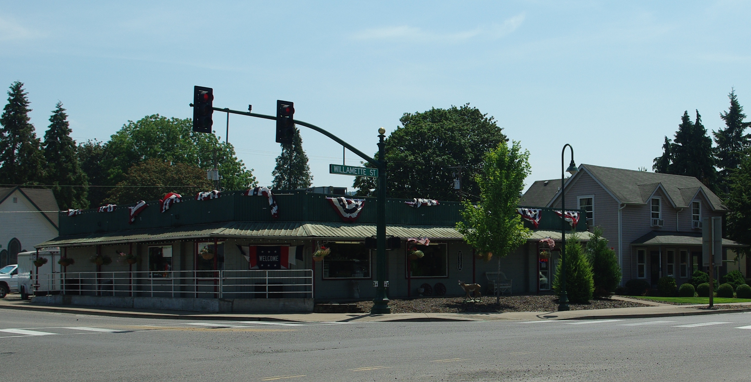 Coburg, Oregon, USA. Antique store on the main road, at the intersection of Willamette and Pearl Streets.